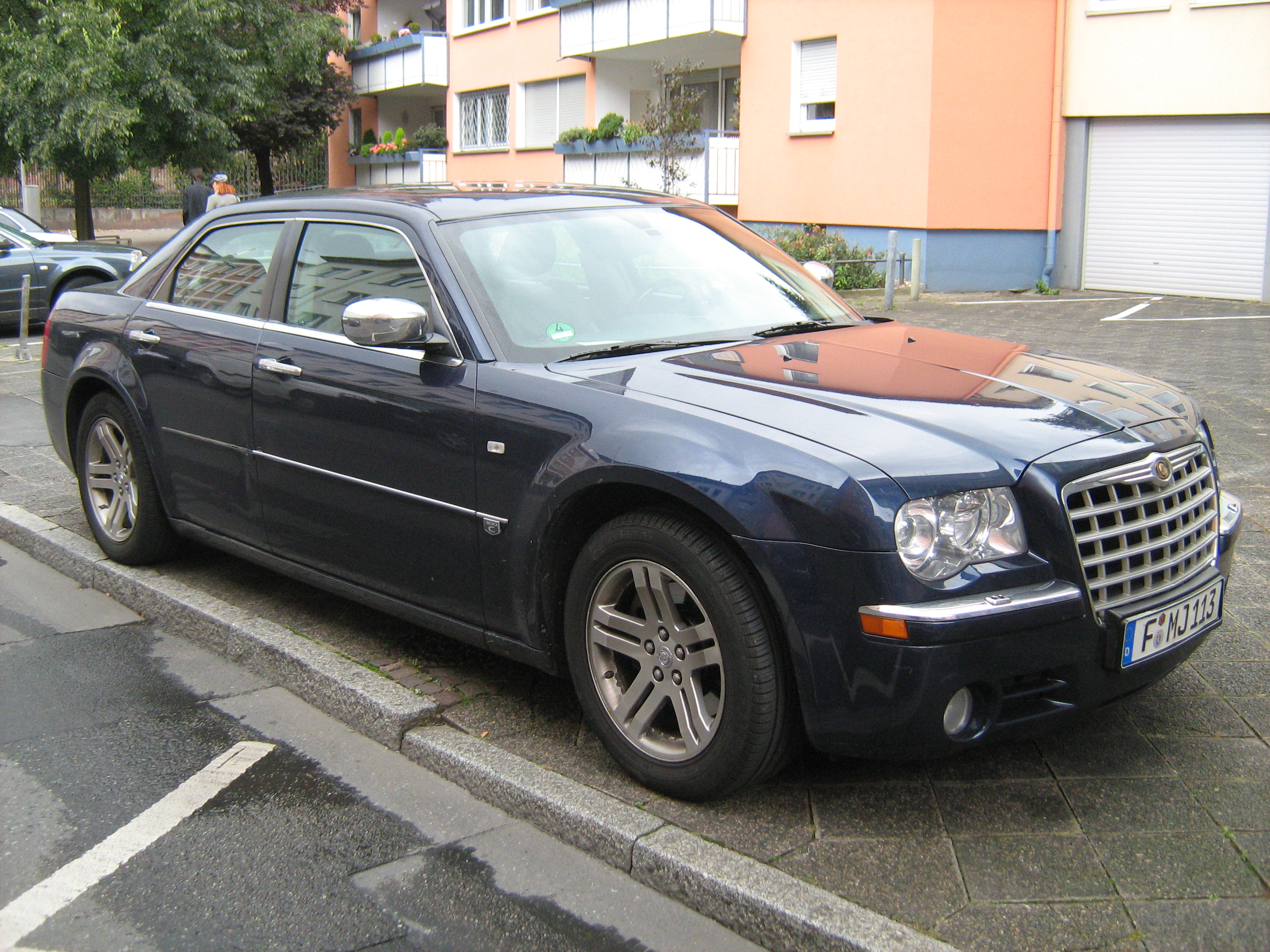 Chrysler 300 C, with European standards/equipment, finished in blue. Parked legally on a sidewalk in the city of Frankfurt am Main, Germany.